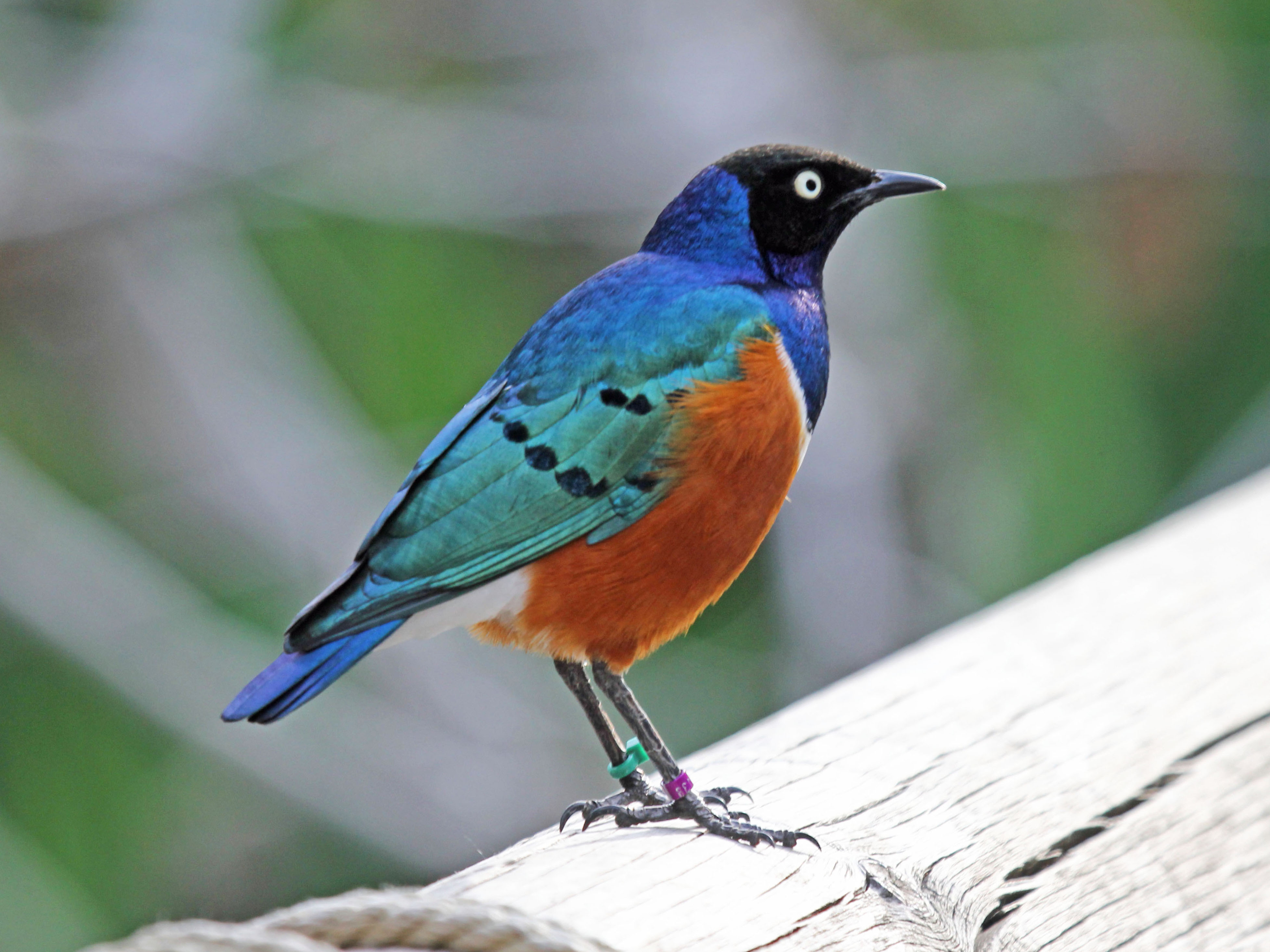 Superb Starling (Lamprotornis superbus) - San Diego Zoo